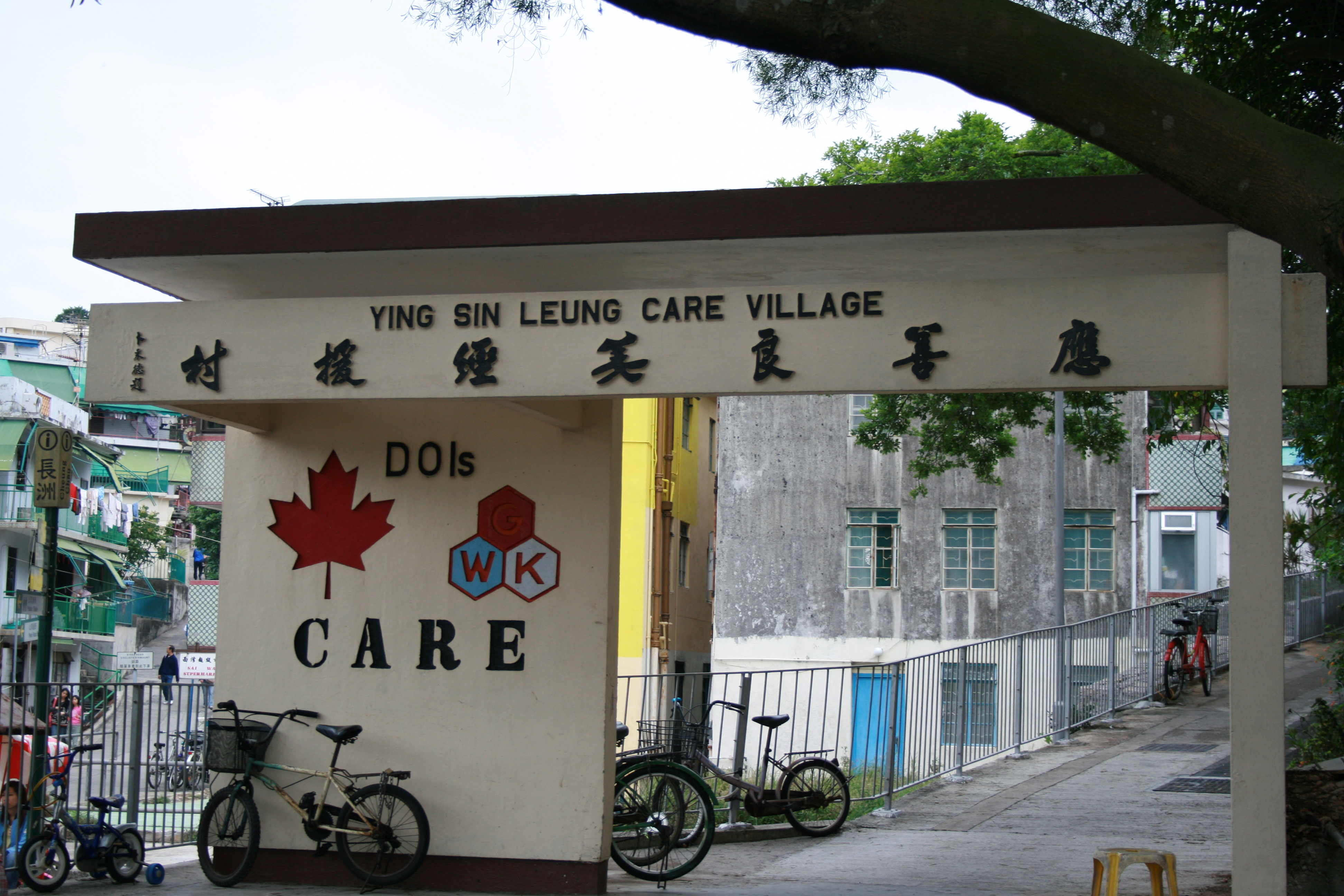 Ying Sin Leung Care Village